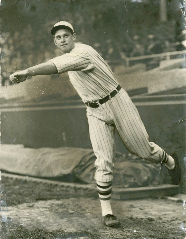 Accession Number BL-1540-68-5 Abstract A black-and-white photograph of Bill Terry, dressed in a New York Giants home uniform, pitching. He is captured having just released a pitch, his left arm extended in front of him. Based on his location on the field, he appears to be warming up or posing for a photograph. Based on the styling of the uniform, Terry's time with the Giants, and the stamp on the back of the image (not shown), the photograph was taken between 1923 and 1927.